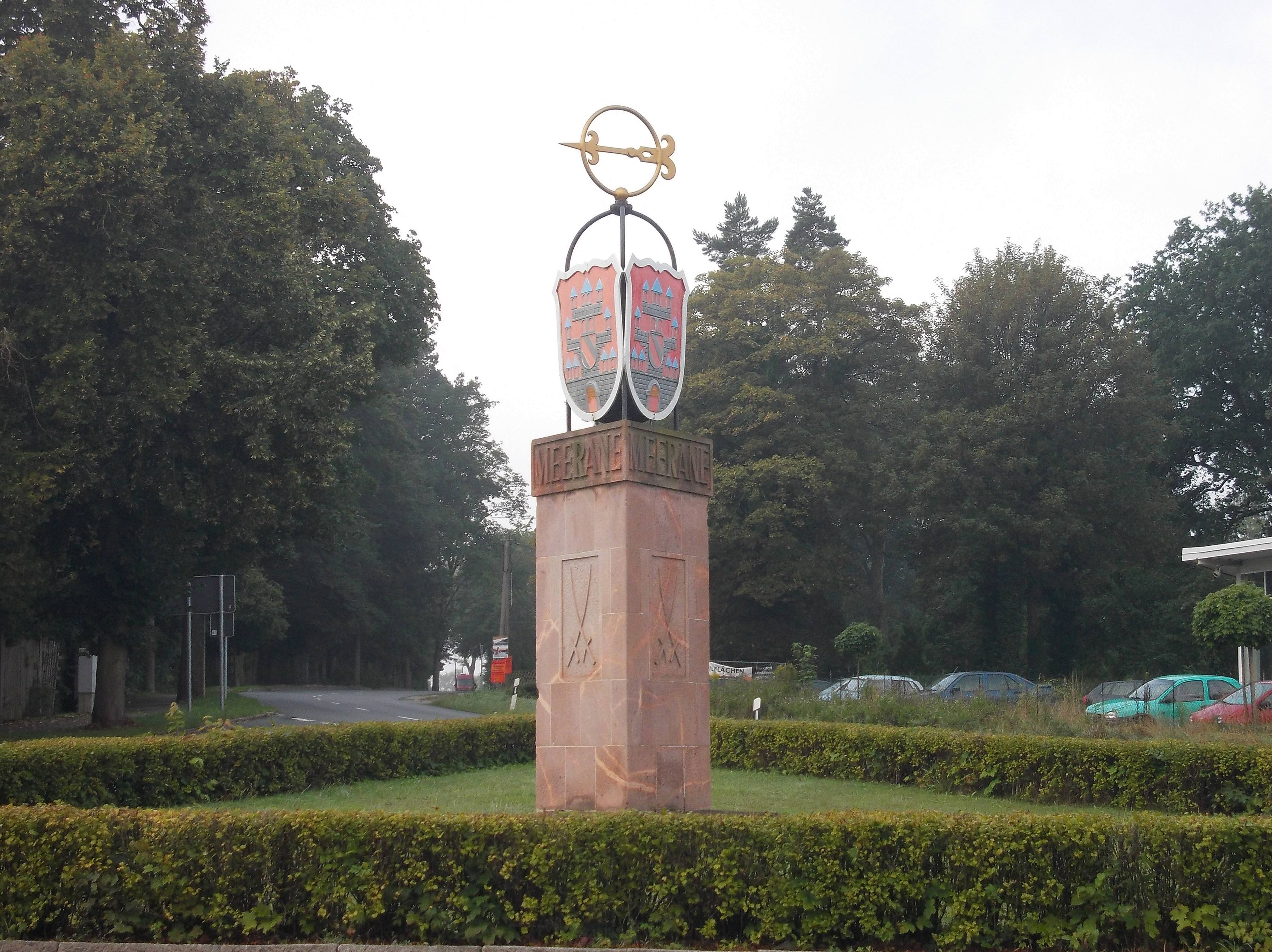 At the entrance to the town of Meerane (Zwickau district, Saxony)